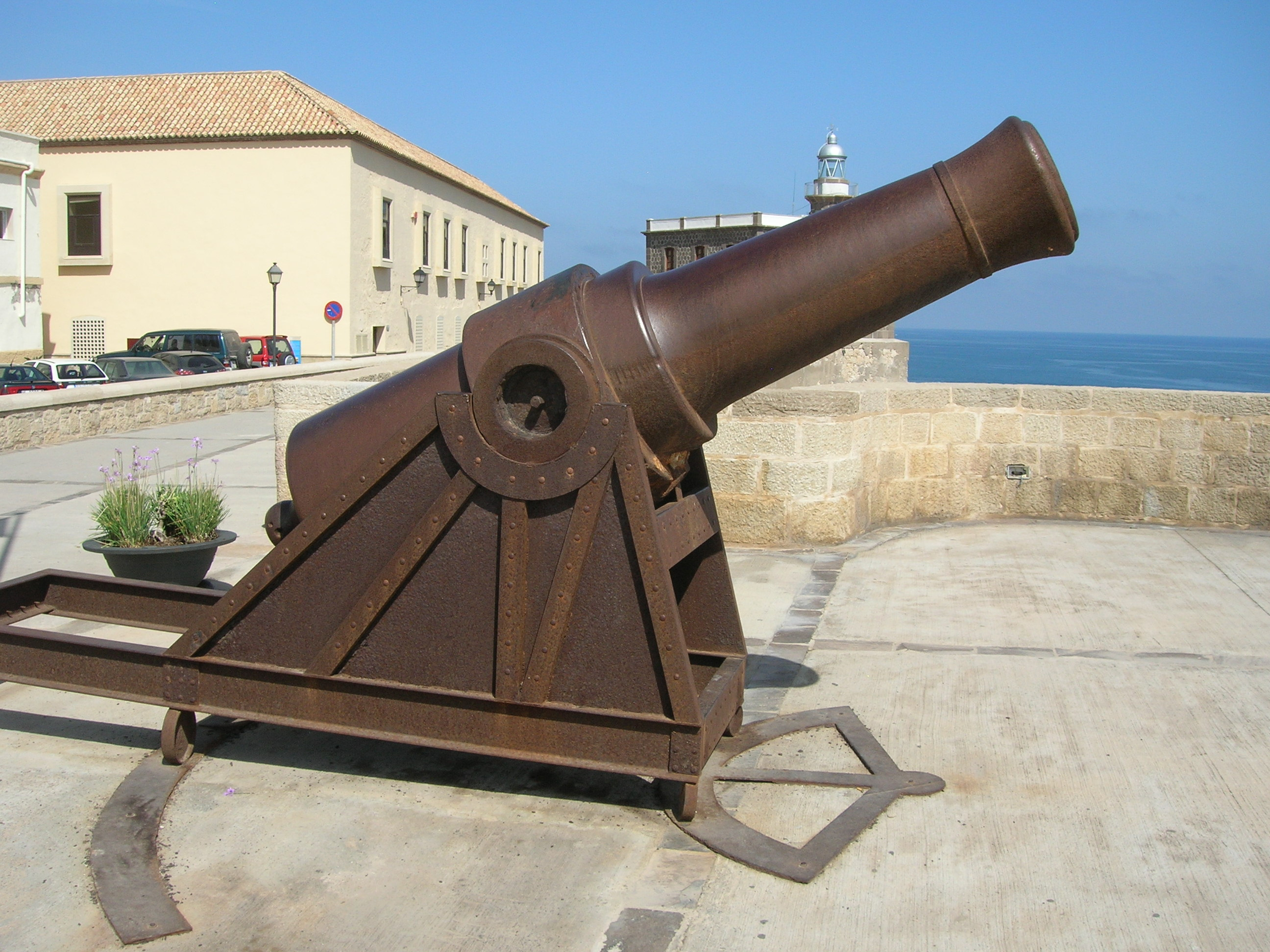 Photo taken at Melilla, Spain.